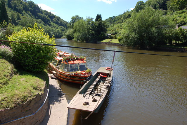 Water transport on River Wye at Symonds Yat East View in the foreground of the hand ferry on the River Wye tied up outside the Saracen's Head pub at Symonds Yat East. Photo looks downstream. The Kingfisher cruise boat "Wye Pride" is also at her moorings awaiting passengers for an afternoon cruise up river.